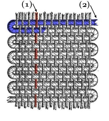 Warp and weft